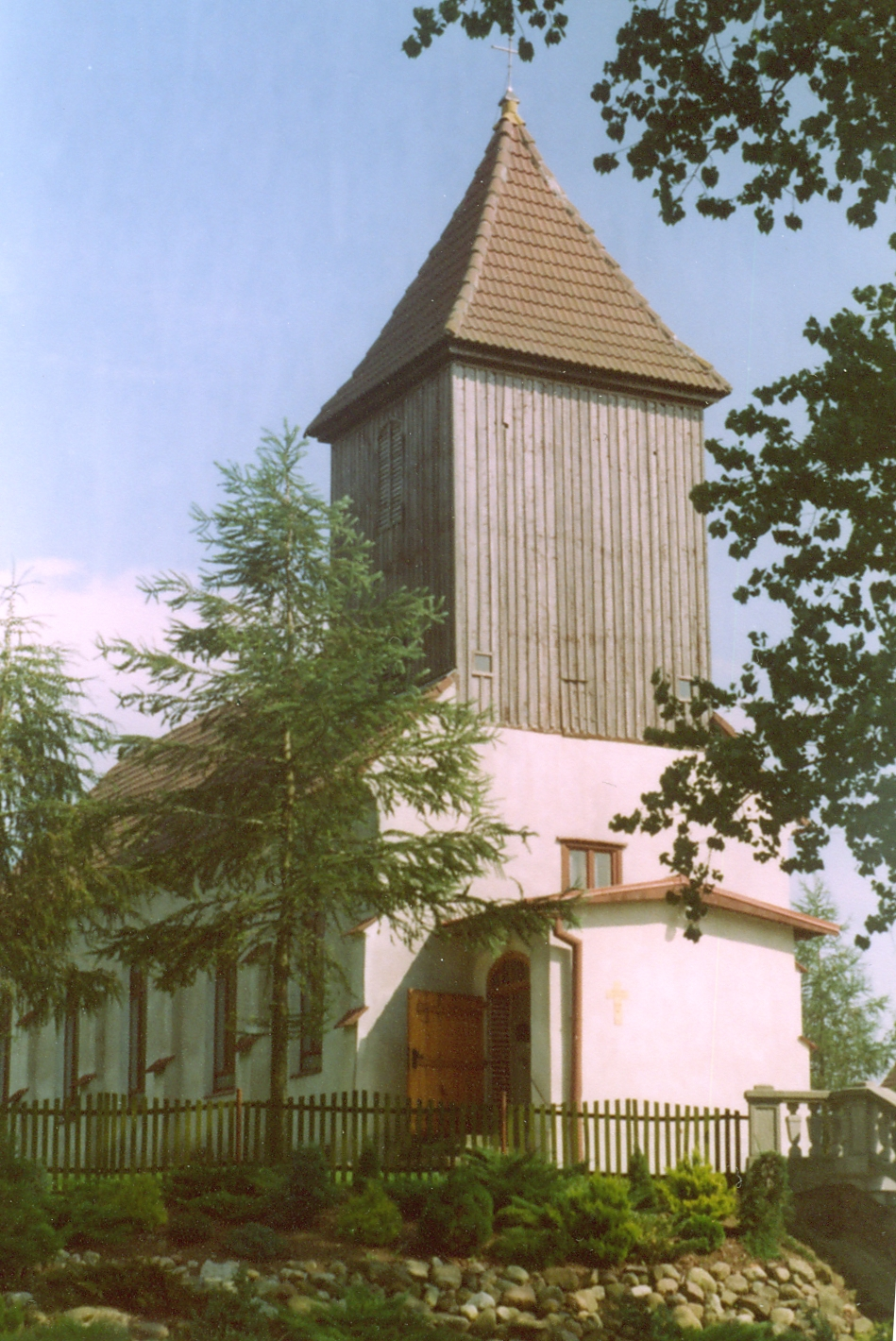 Saint Florian church in Postomino